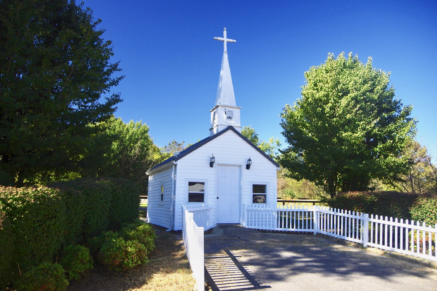 A "tiny church" located at Bardwell City Park in Bardwell, Kentucky, United States.